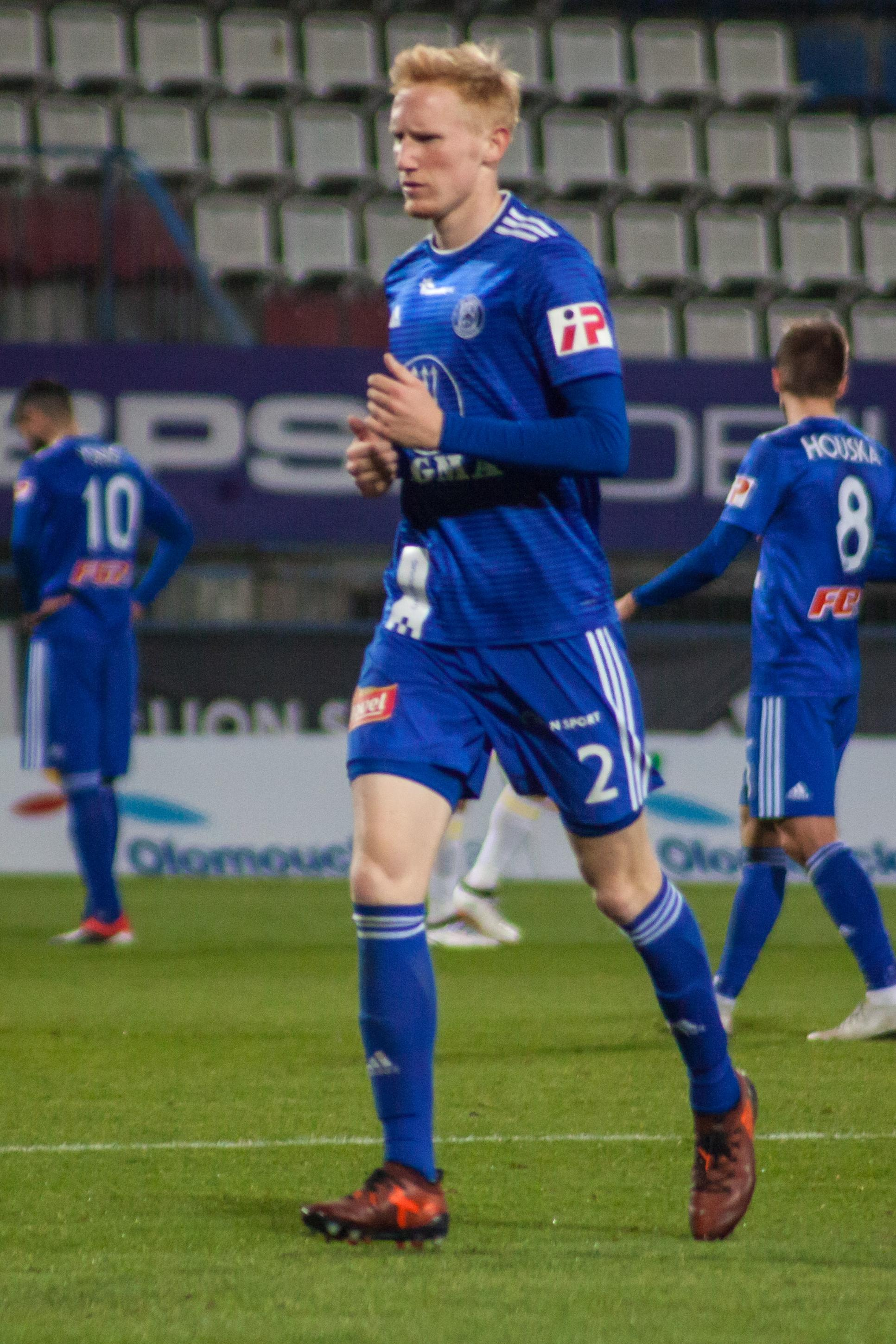 Václav Jemelka At Czech cup (MOL Cup) match SK Sigma Olomouc-FC Fastav Zlín played on 15 November 2018